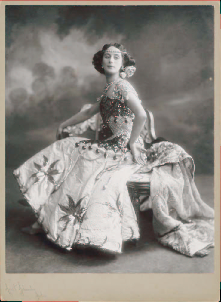 Anna Pavlova, Panaderos dance from Raymonda. Berlin, 1908.